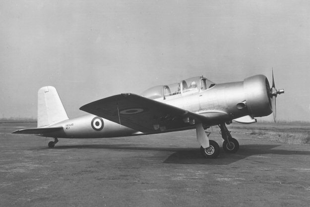 This photograph was created in Italy (or in Italian territory) and is now in the public domain because the copyright has expired. [1] According to the Law No 22 April 1941 633 on the protection of copyright and other rights related to its exercise , as amended by Act No 22 May 2004 128, photographs and general lack of artistic and reproductions of works of figurative art into the public domain since the beginning of the calendar year following the completion of the twentieth year of production ( Article 92 ). According to the text of the law, such "simple photographs" are defined as "images of people or of aspects, elements or facts of the natural and social life, obtained with photographic process or similar process, including reproductions of works of figurative art and frames of films. Not included are photographs of writings, documents, business papers, material objects, technical drawings and similar products "( Article 87 ). Photographs considered works of art, however, become public domain 70 years after author's death, according to ' Article 2 point 7 and at ' Article 32-bis . ^ I'm already in the public domain and free generic pictures of artistic produced in Italy (and in the territories under Italian law at the time of the making of the photograph, such as the ' Italian East Africa ) before 1 January 1991